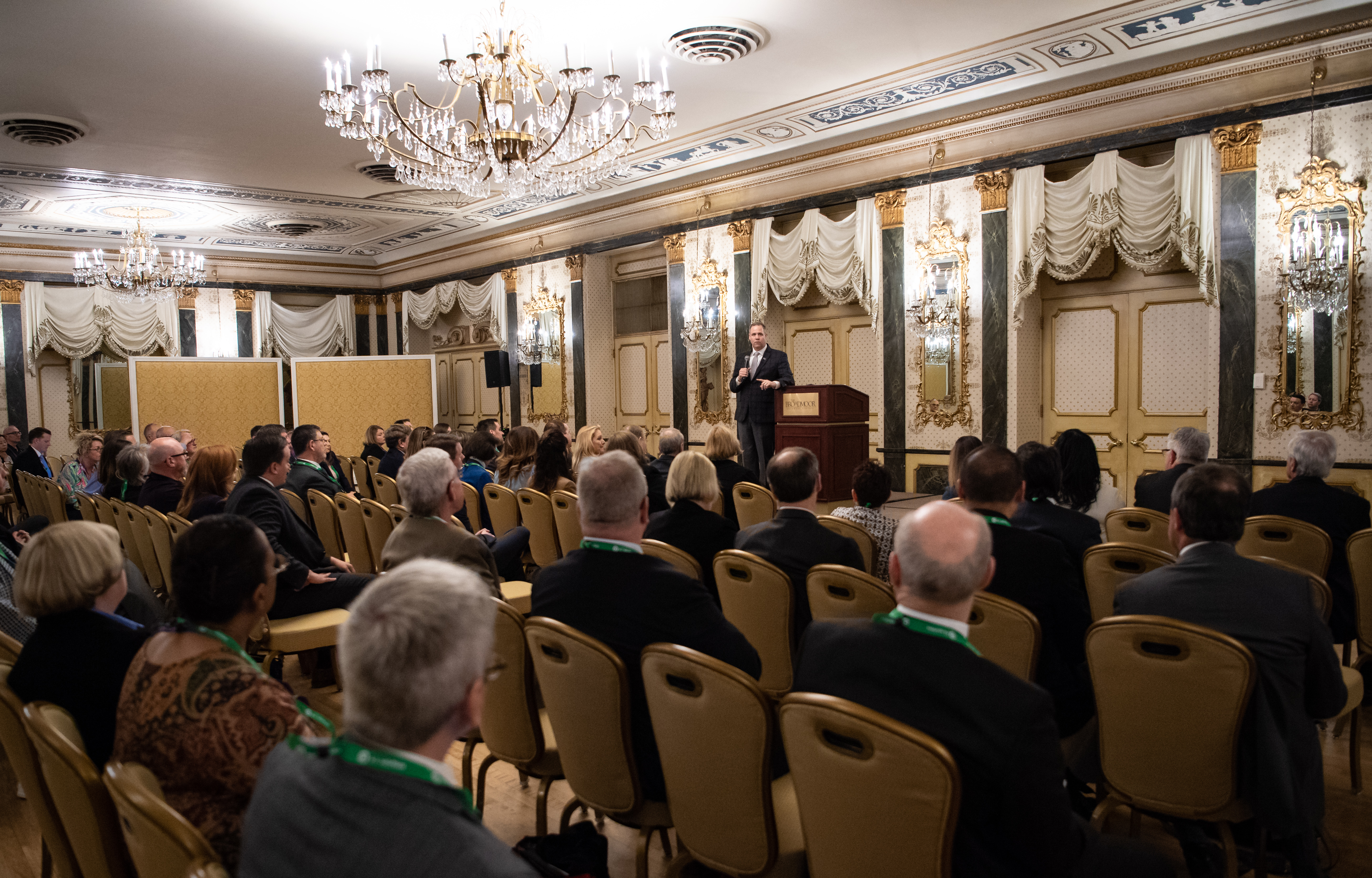 NASA Administrator Jim Bridenstine gives remarks at an agency meeting at the Space Symposium, Monday, April 8, 2019, at the Broadmoor Hotel ballroom in Colorado Springs, Colorado. NASA officials from NASA centers around the country were in attendance.